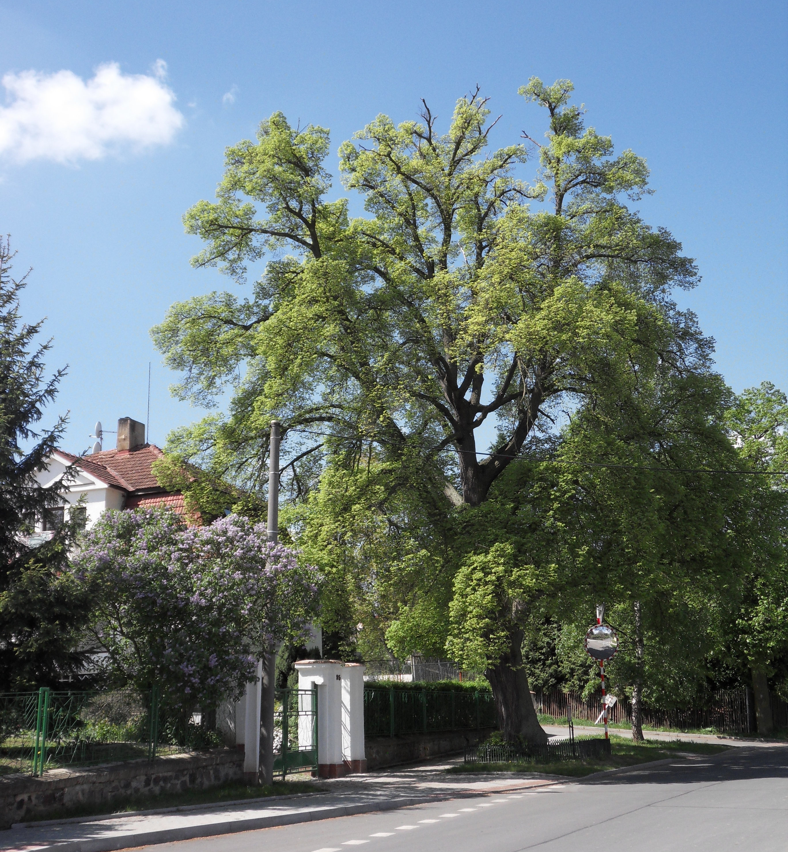 Small-leaved Lime (Tilia cordata) in Dýšina, District Plzeň-město, Czech Republic